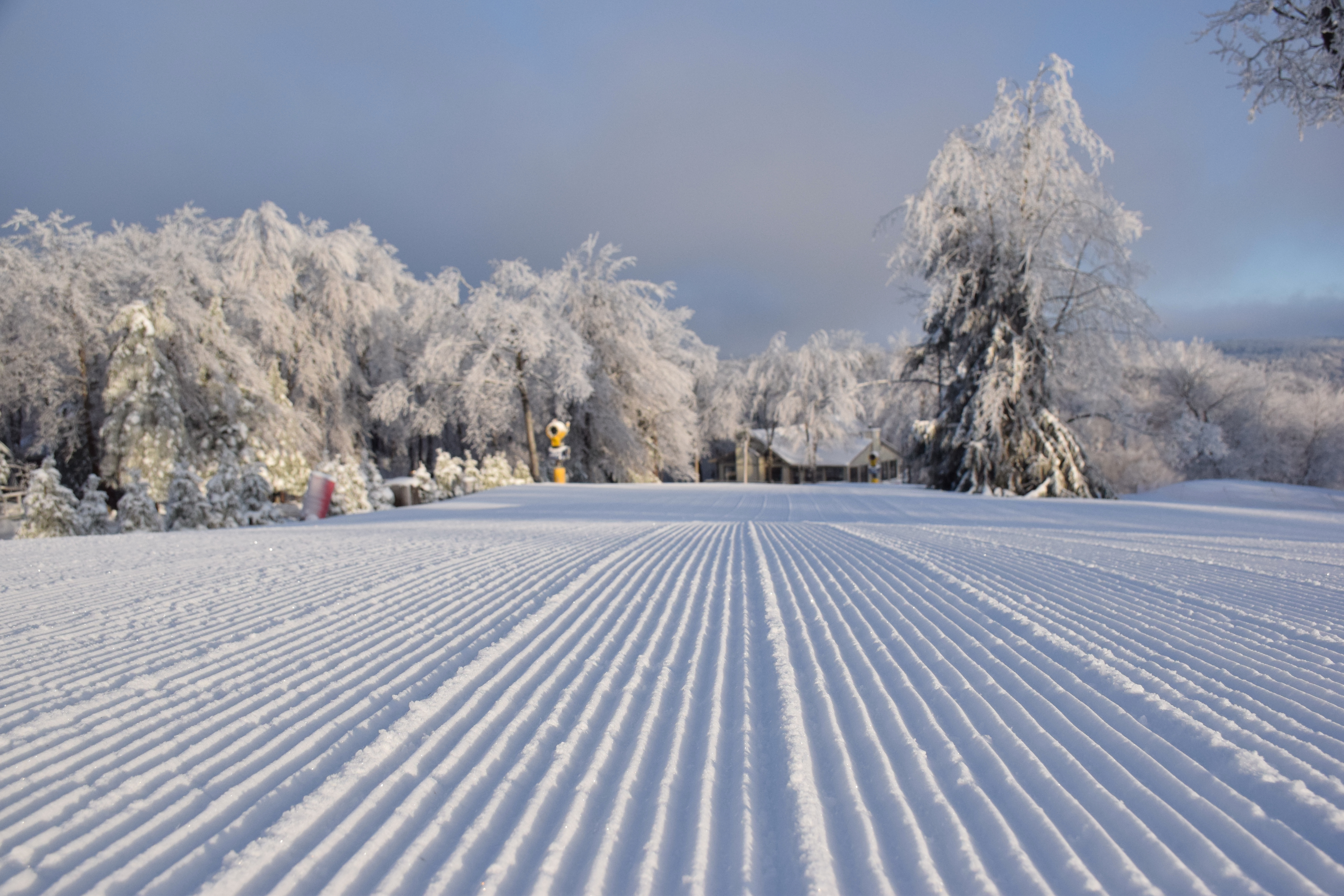 Hidden Valley Grooming